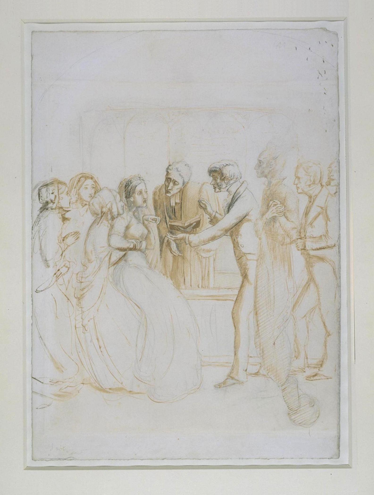 The Ghost at the Wedding Ceremony - 1853 - (John Everett Millais) Place of Origin: England, Great Britain Materials and Techniques: Pen, pencil and ink on paper Dimensions: Height: 50 cm, Width: 45 cm